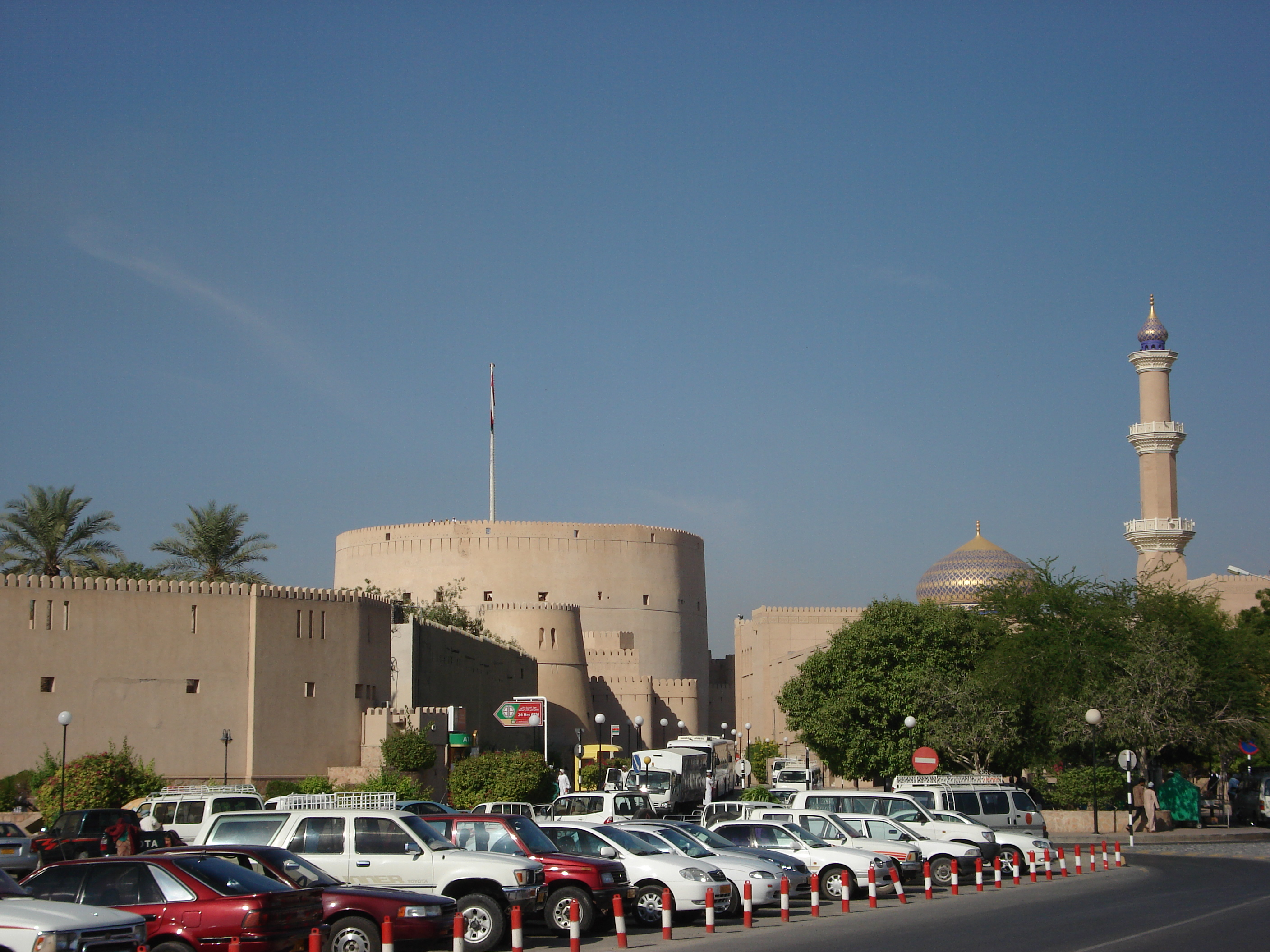 Fort of Nizwa, Oman (ca. 1650)